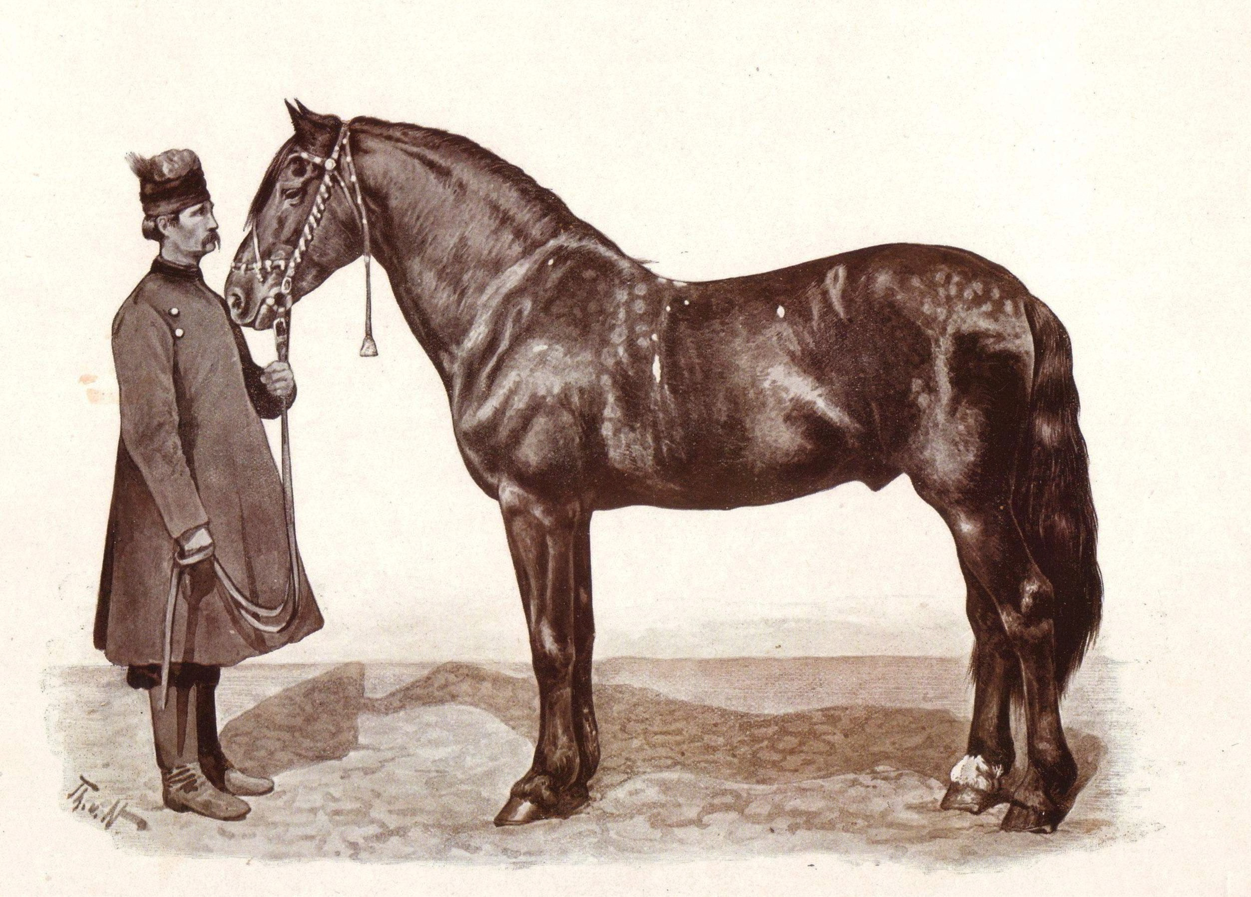 Orlowtraber (German expression), black stallion "Tugoiy", born in Russia